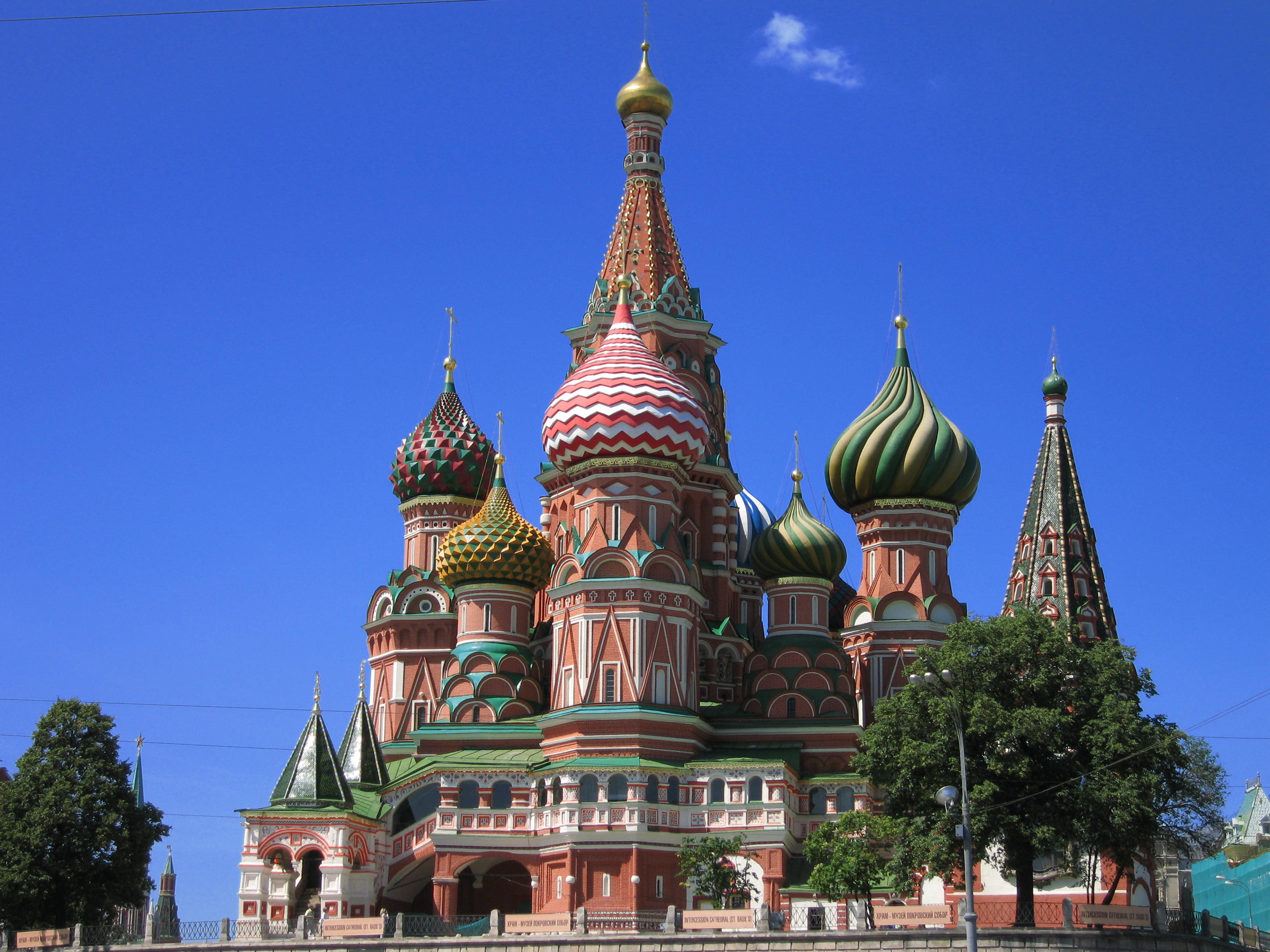 St. Basil's Cathedral, Moscow